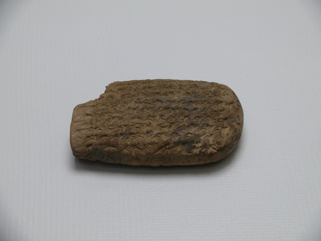 Clay Tablet, Persepolis Museum, Iran